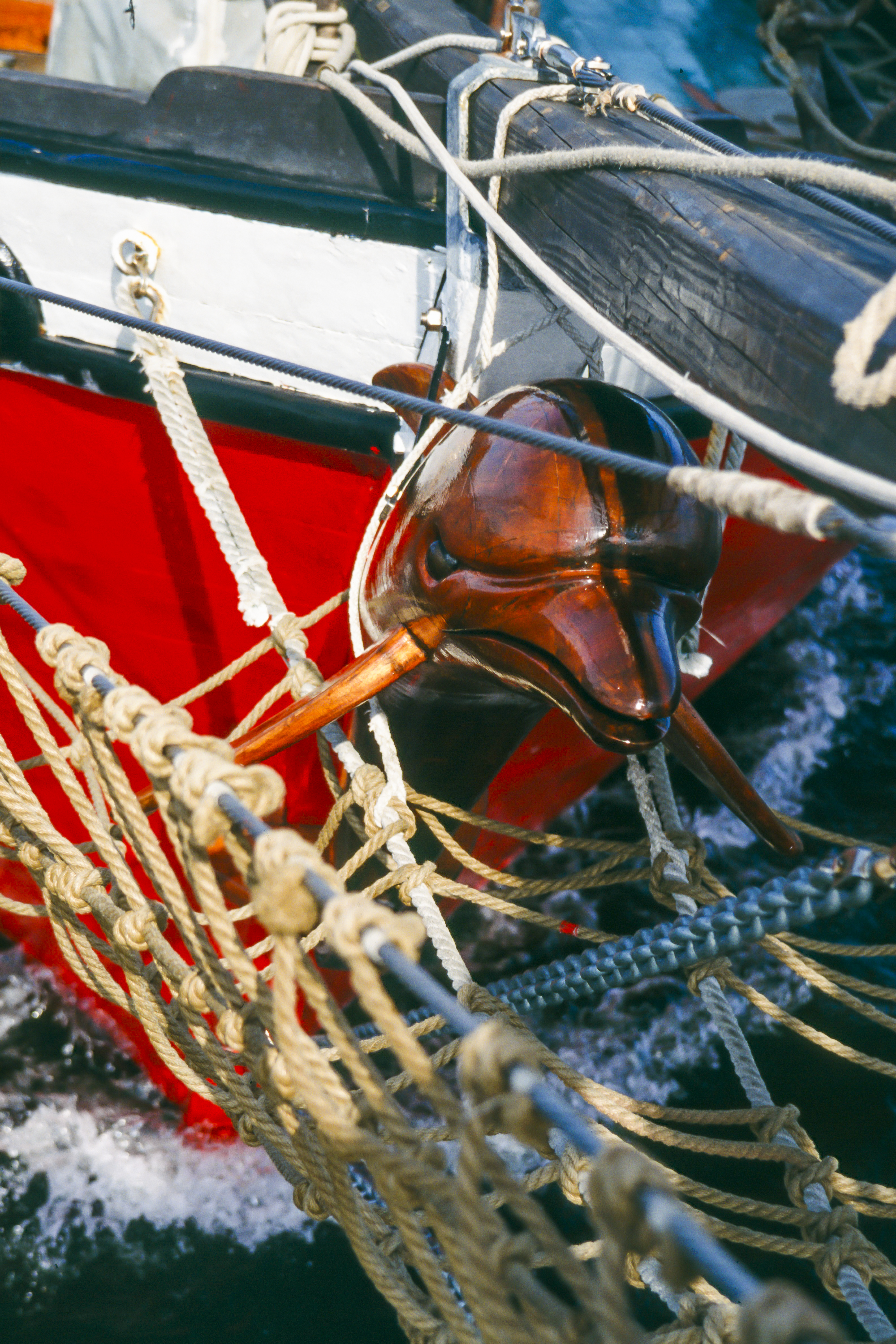 Sweden: Figurehead of Brigantine "Falado von Rhodos"